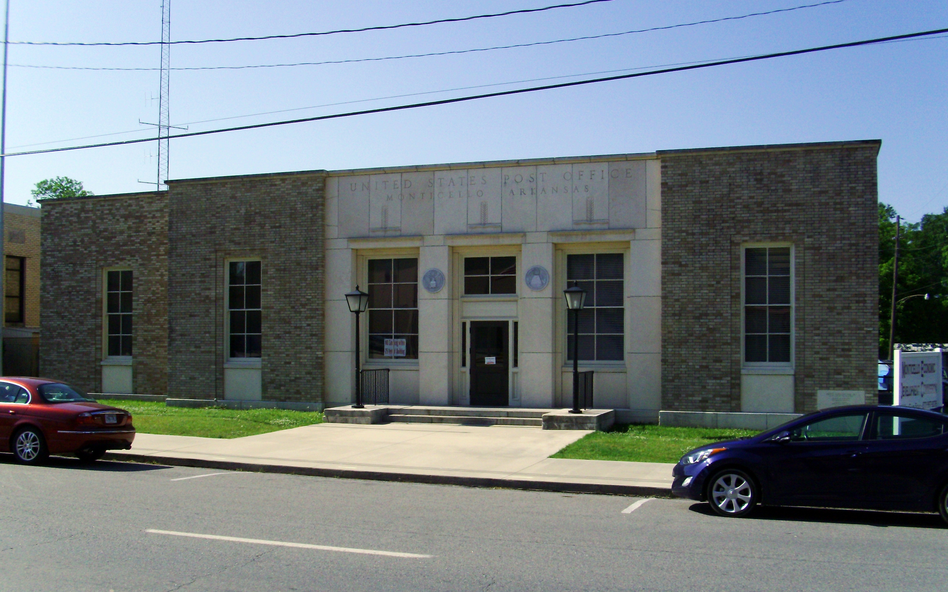 221 W. Gaines St. 1937 structure featuring Depression-era sculpture